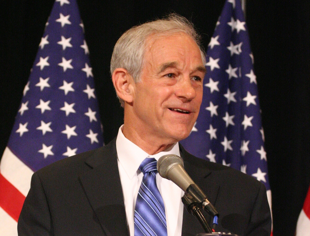 Ron Paul at the 2007 National Right to Life Convention, held at Crown Center Hyatt Regency in Kansas City, MO; June 15, 2007